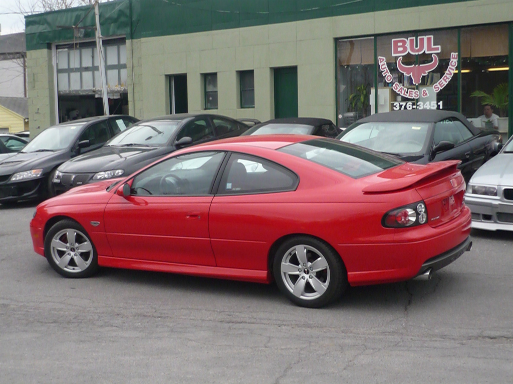 2006 Pontiac GTO coupe, photographed in the United States.